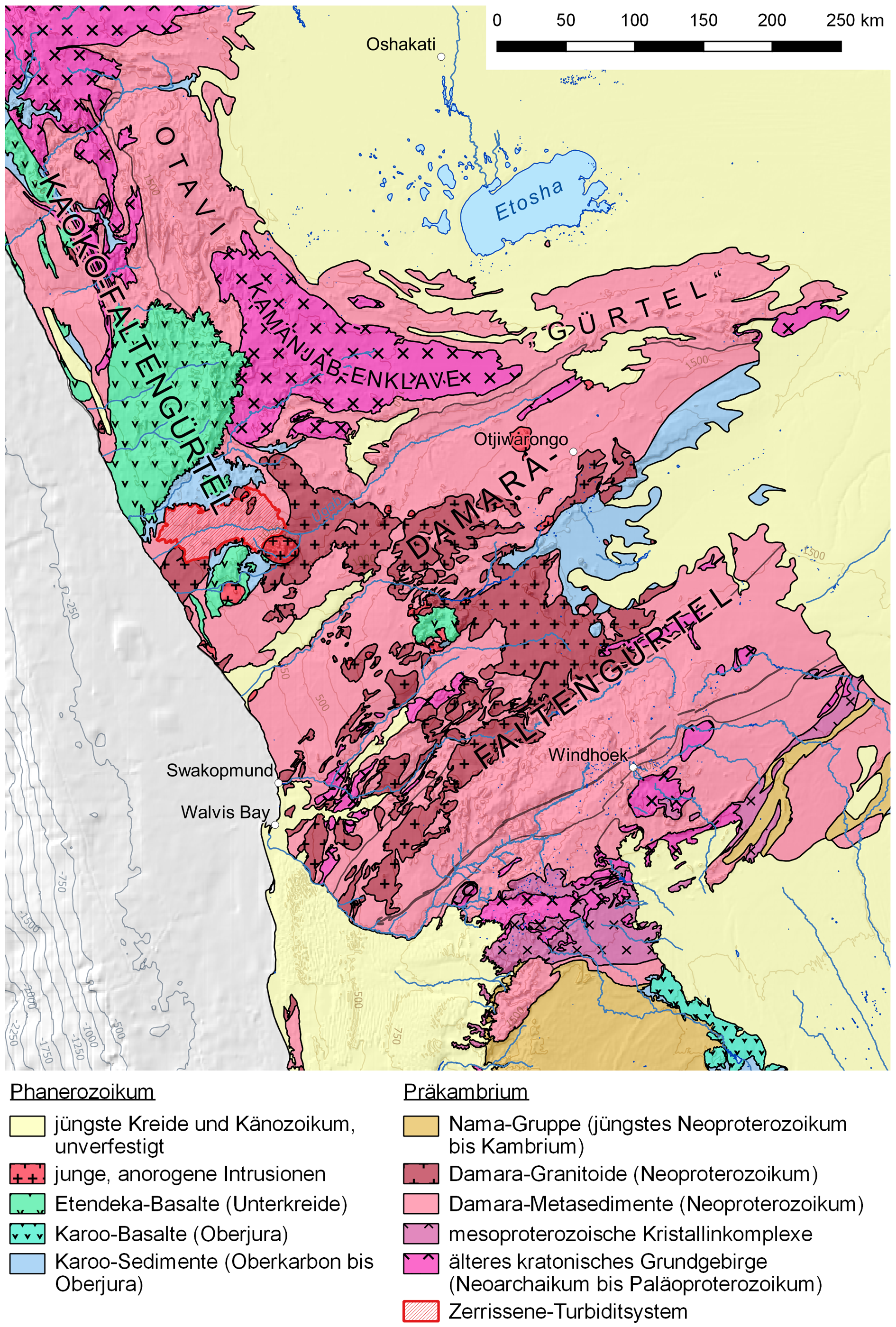 Map of the surficial geology of the central part of Namibia with the position of the Zerrissene Turbidite System highlighted